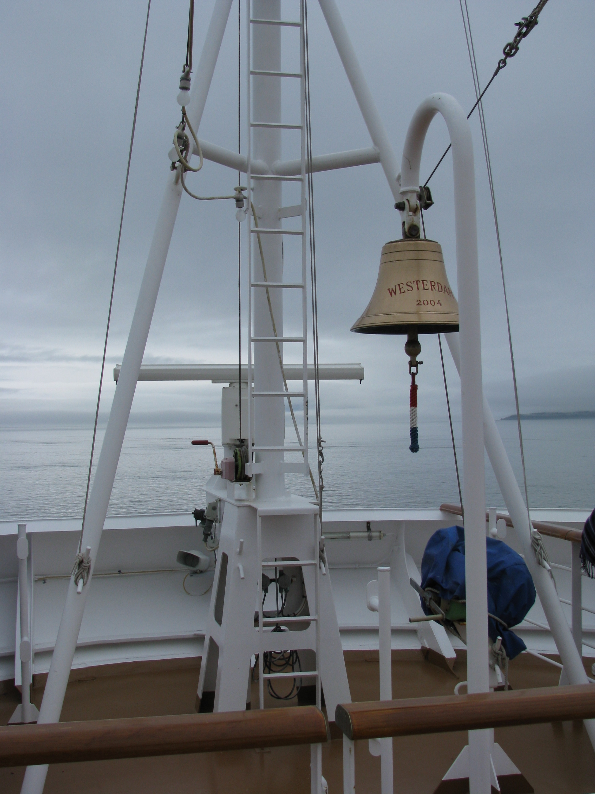 Westerdam bell, located on the fore-most part of the bow